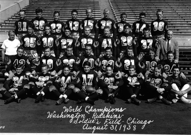 personal team photo in possession of Mike Krause, Max's son